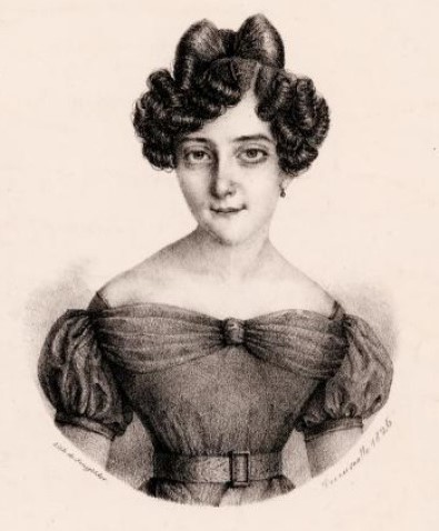 Portrait of the Austrian opera singer Caterina Canzi, also known as Katharina Wallbach-Canzi (1805–1890)